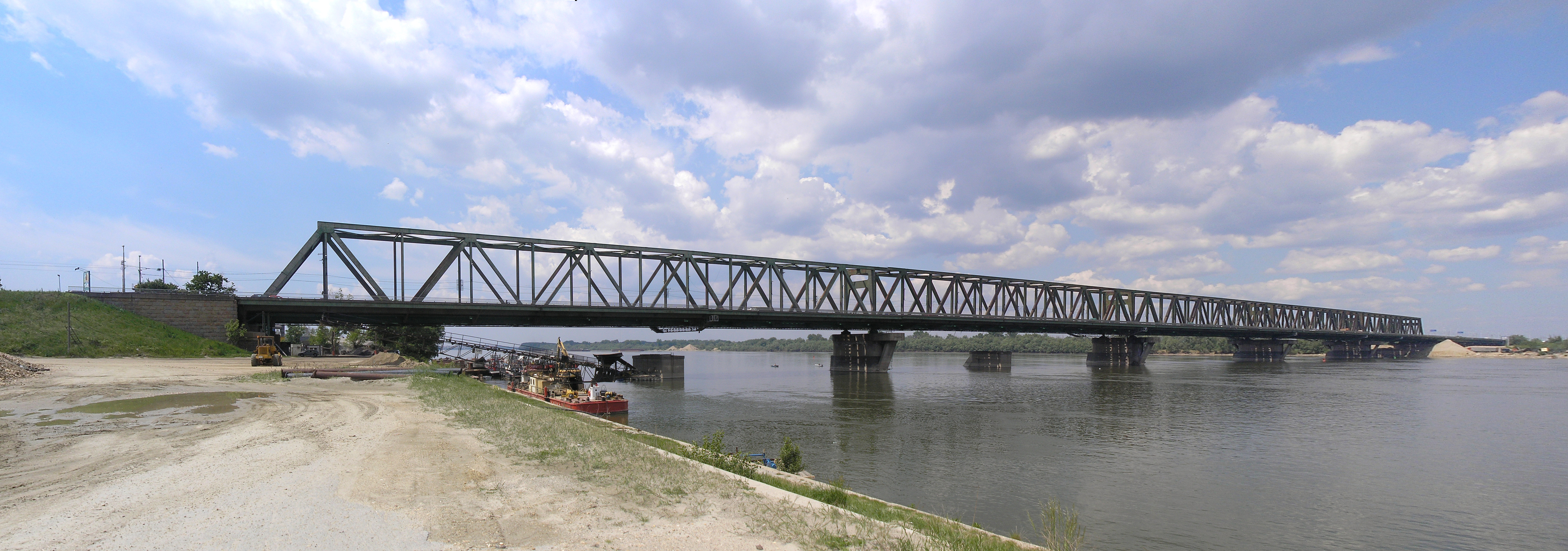 Sideways look towards the Pančevo bridge. Photo taken on the right riverside of Danube.